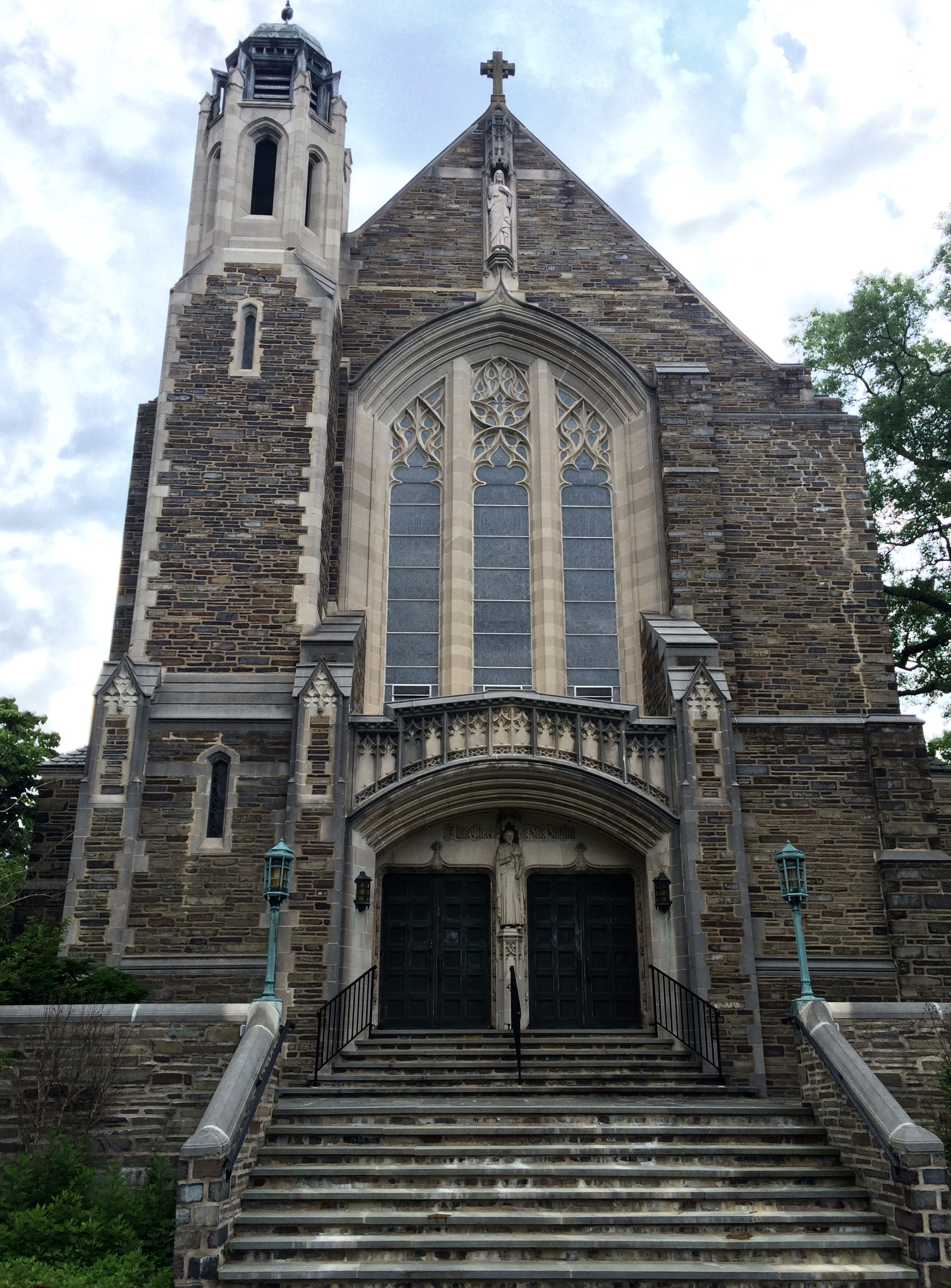 The chapel of St. Joseph's Seminary of Princeton, New Jersey (actually located in Plainsboro, New Jersey but with a Princeton address)